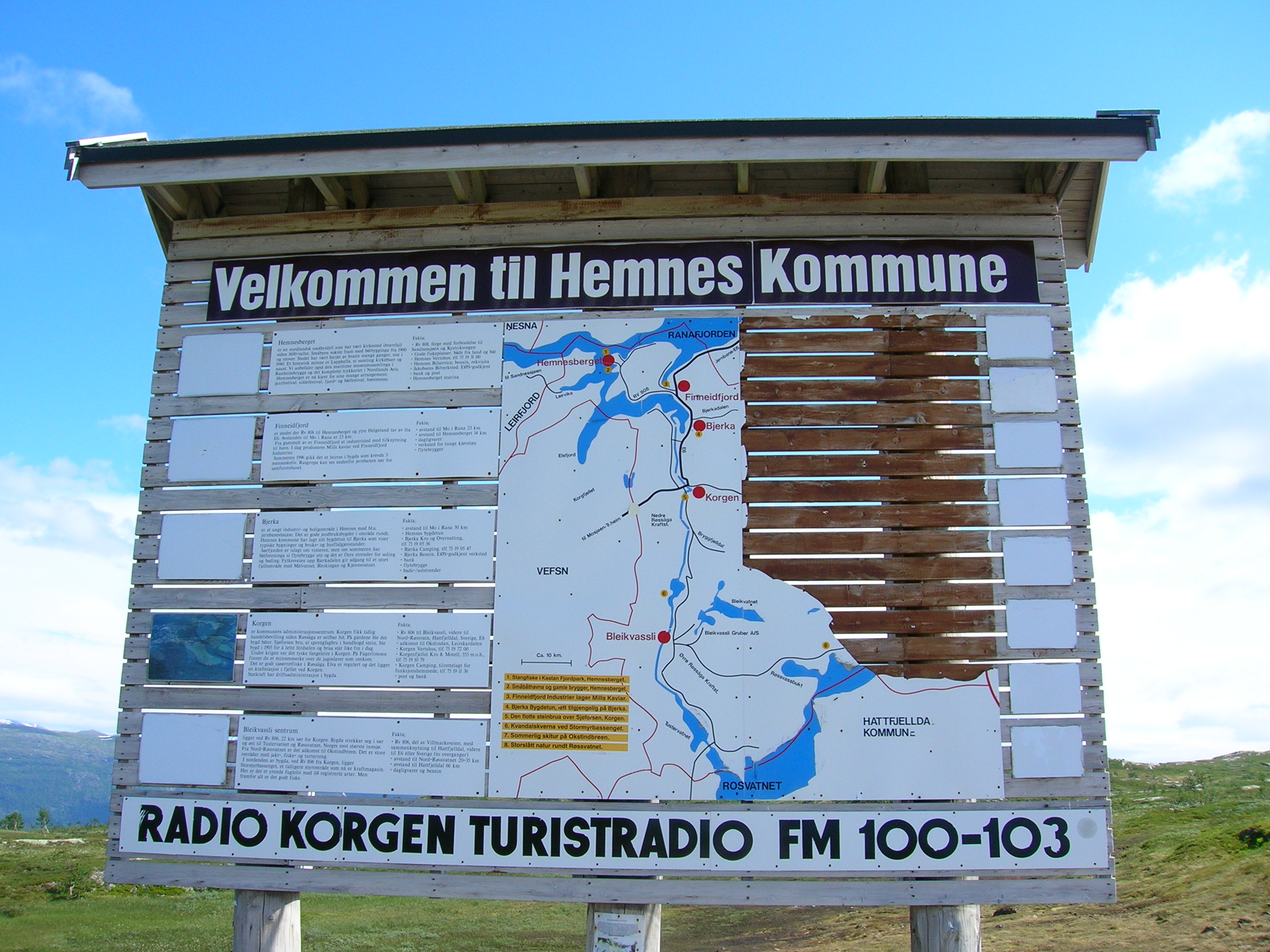 Road sign on Korgfjellet with information about the municipality of Hemnes. The border between the two municipalities cross the uppermost point of the old European route 6 on the mountain. Photo on Korgfjellet, Nordland county, Norway, on July 8, 2007 with a Nikon Coolpix 5600 5,1 Megapixel camera.